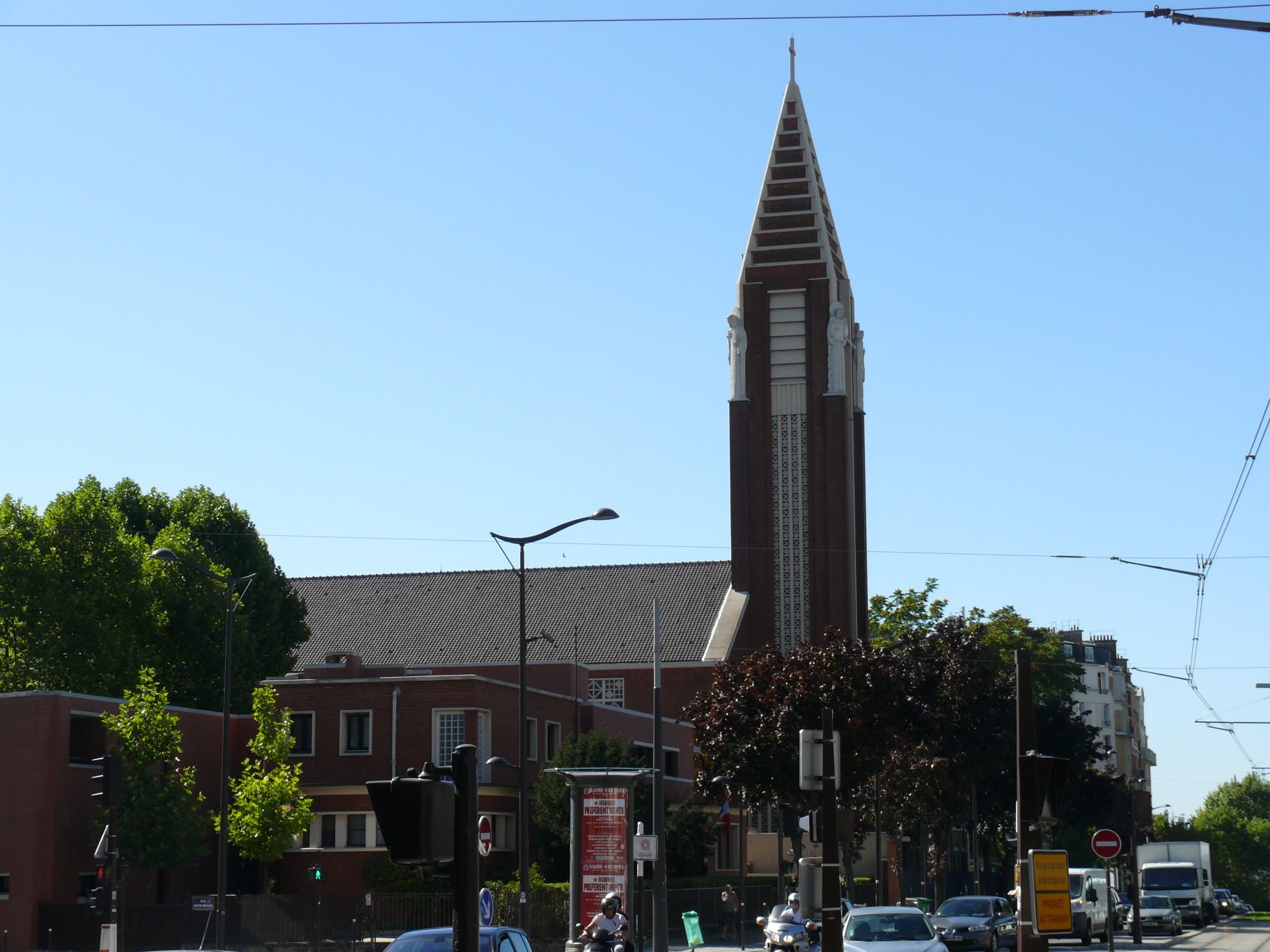 Saint-Antoine-de-Padoue's church, in Paris (Paris XV, France)